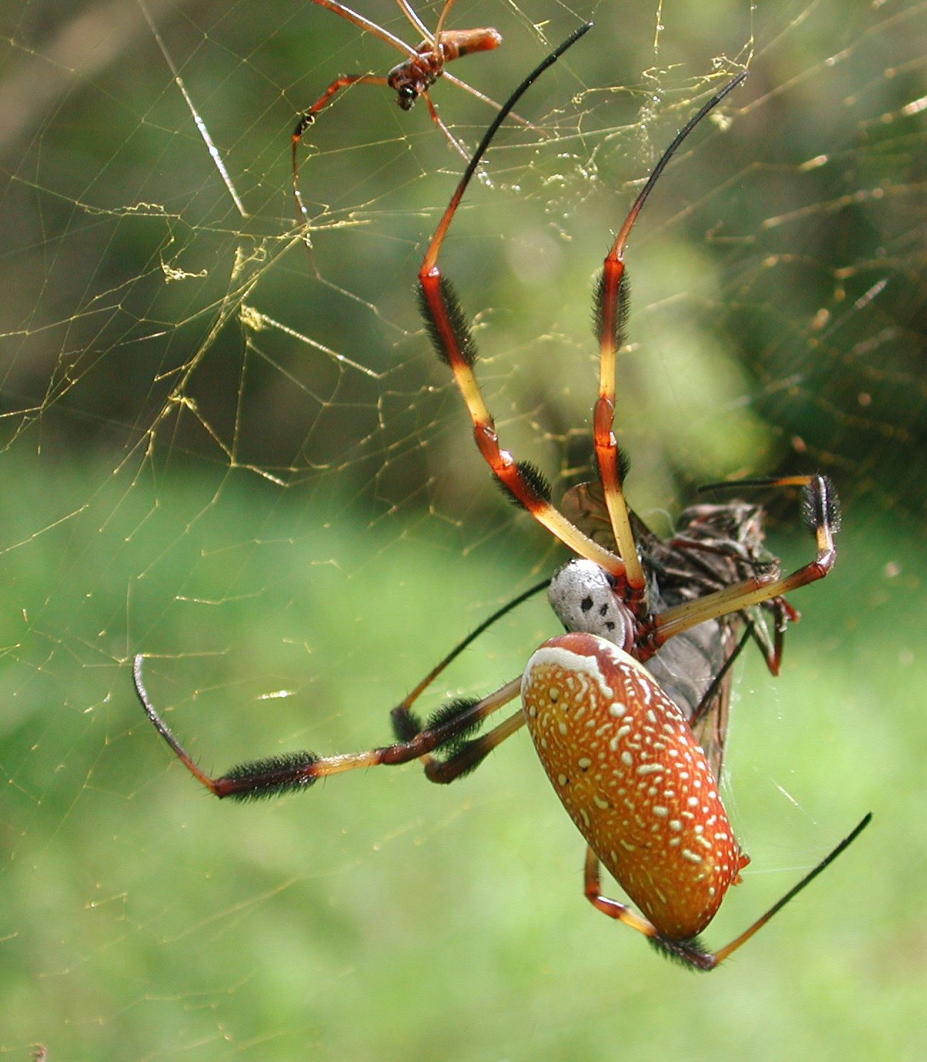 Golden silk Spider